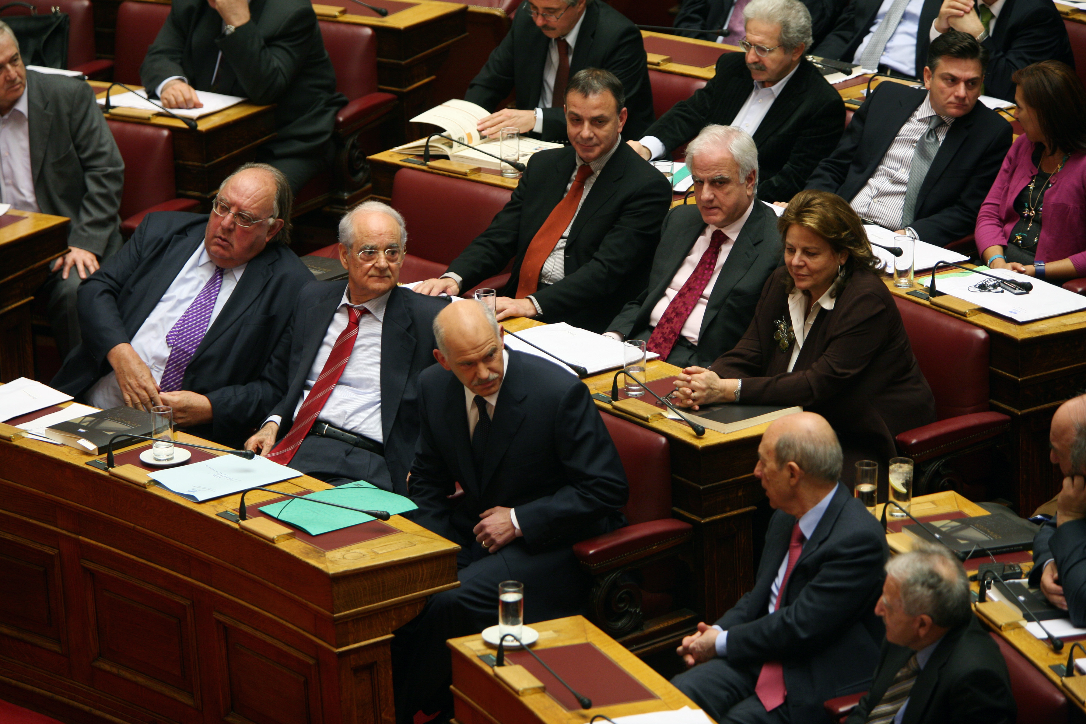 PASOK members of the Greek parliament during the discussion of the 2009 budget. Mouse over image for individual identifications.